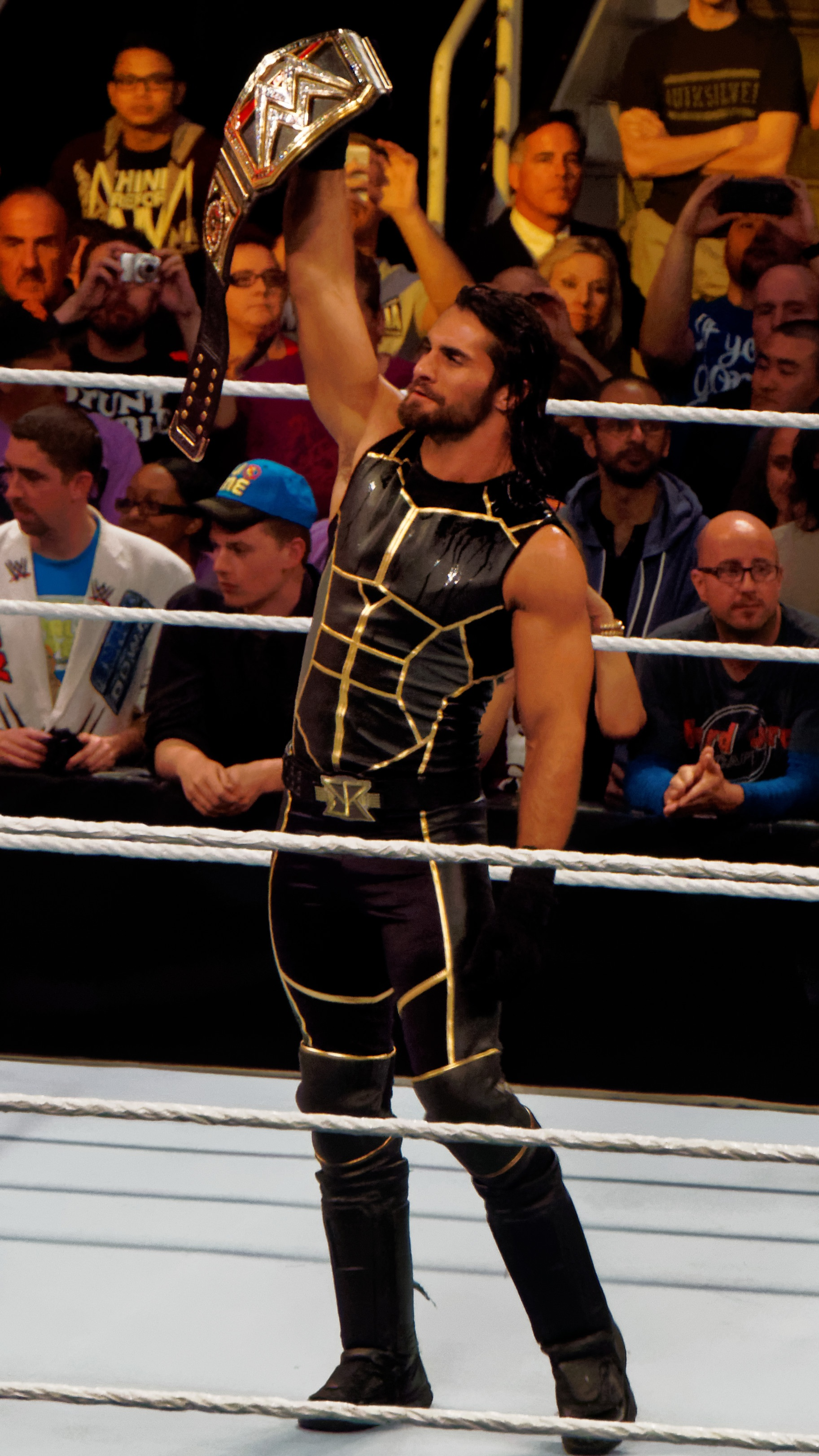 The raw everyboding is waiting for ... The One after Wrestlemania